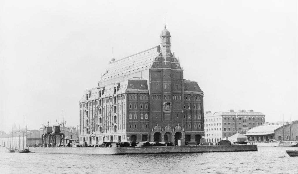 Vintage photo of the Silopakhus at Midtermolen in Copenhagen, Denmark